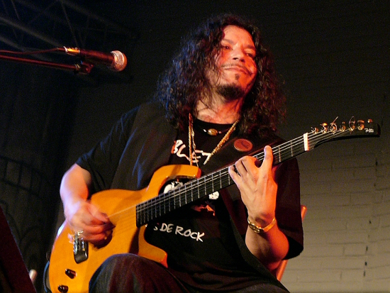 Andalusian guitarist Raimundo Amador performing live in Alcoi